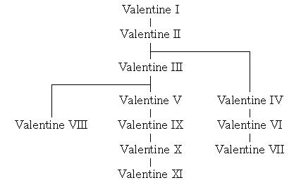 Valentine tank's variant hierarchy